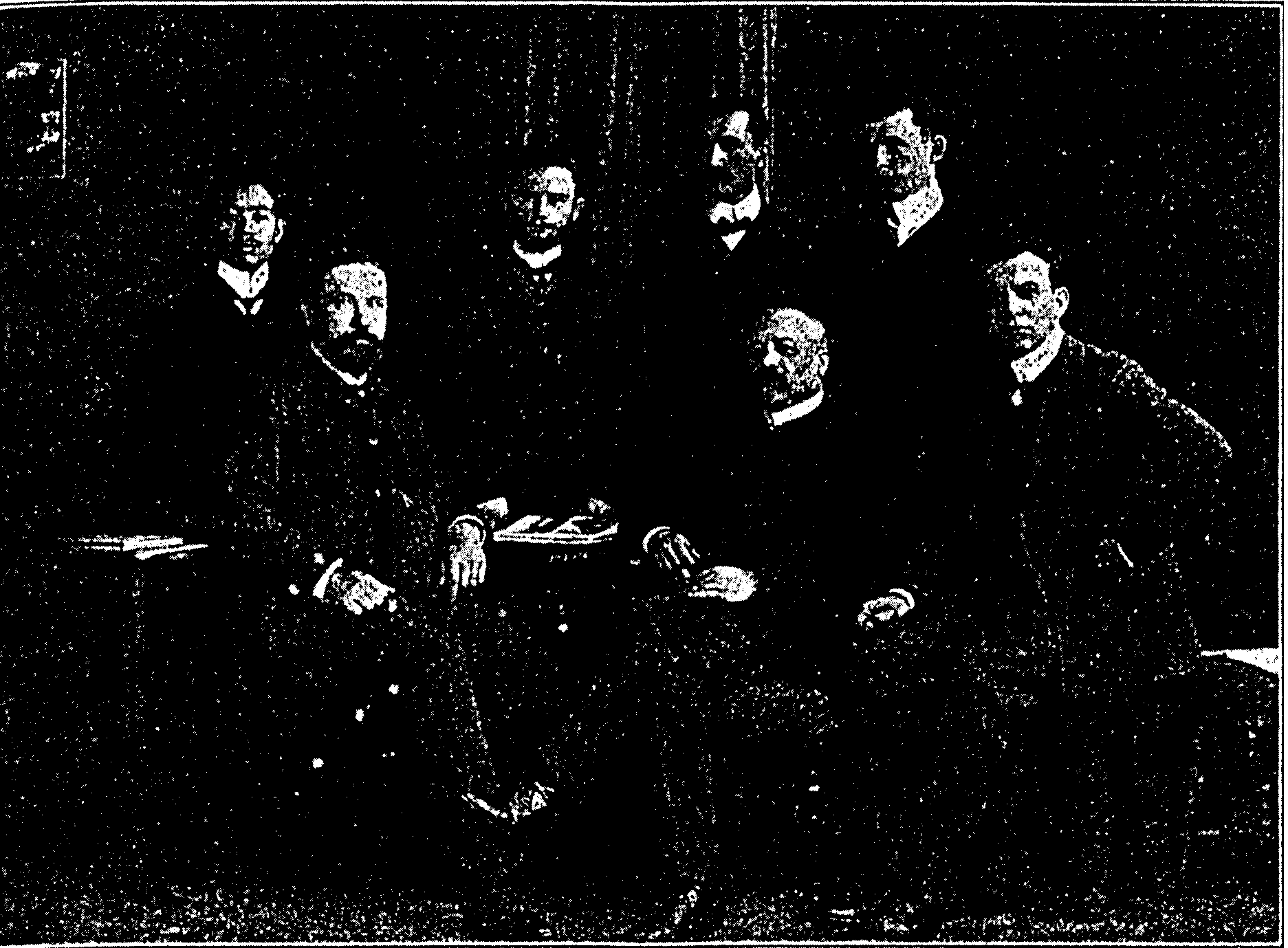 At the left end of the back row is Dr. Itchikawa; the left end of the front row is Prof. Rudolf Lange, Hermann Plaut, and the remaining four are students (Ost = Asien, August 1907)